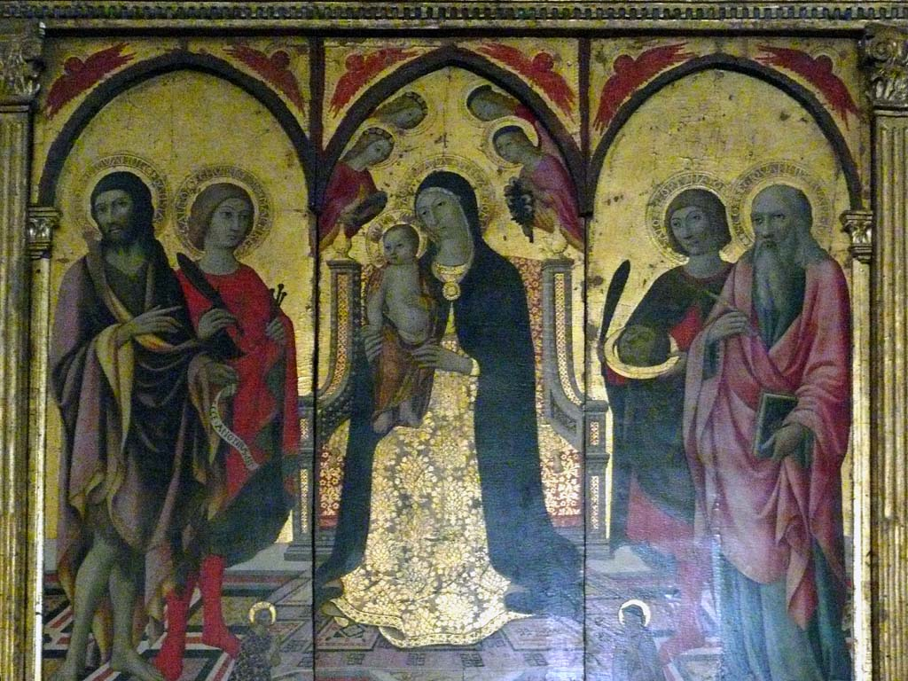 Polyptych of "Sano di Pietro" (Siennese School - 15 C)